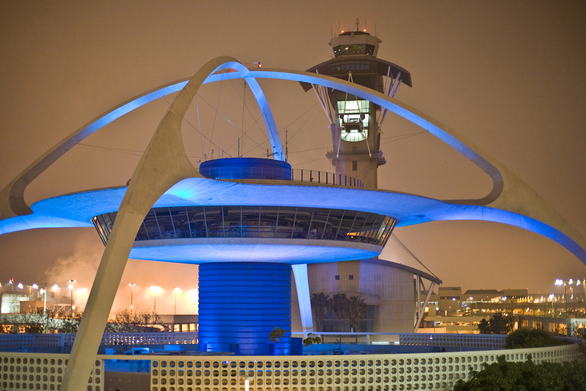 The Theme Building and control tower in Los Angeles International Airport, also called LAX, situated in the city of Los Angeles.